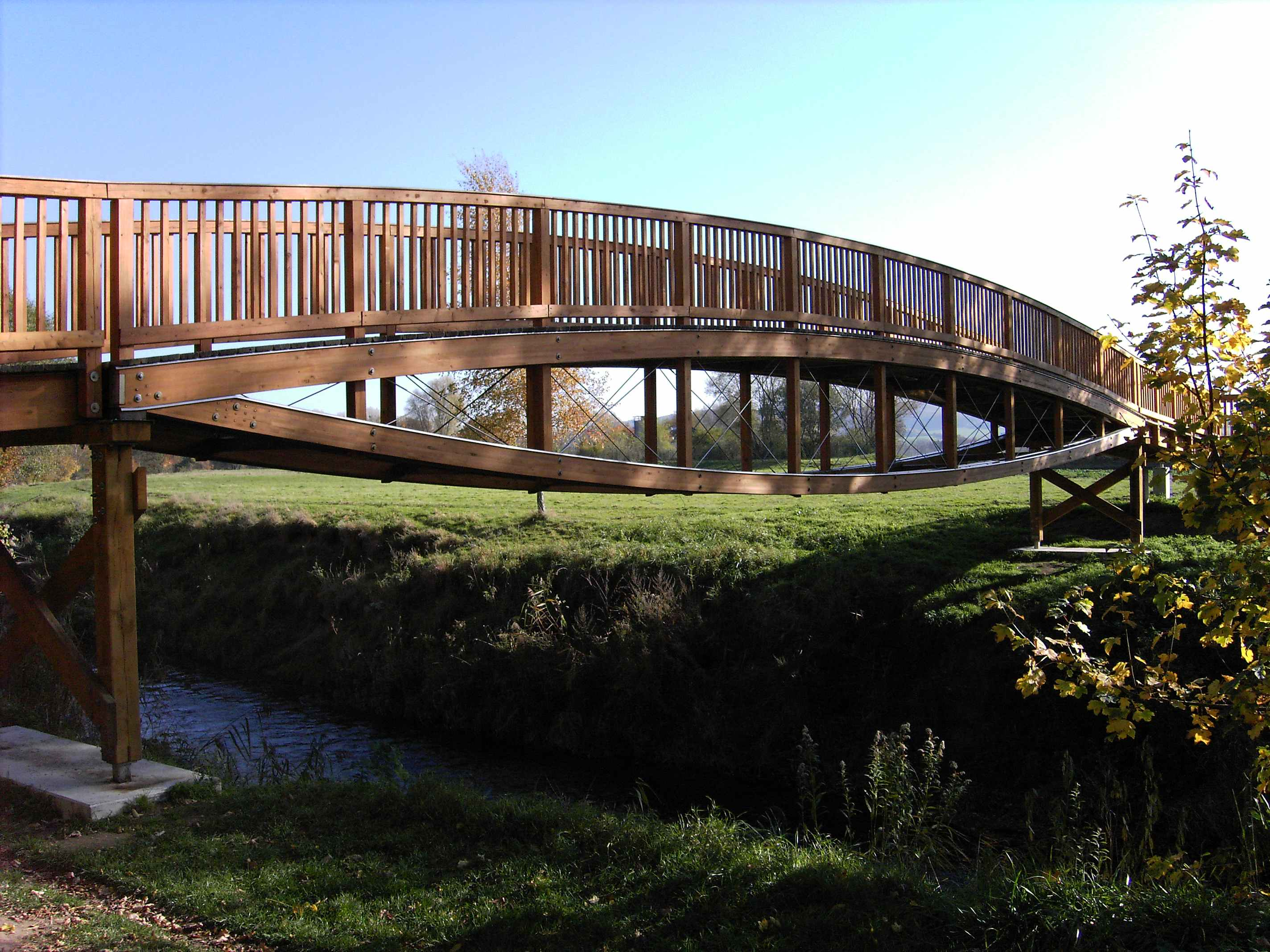 Walshausen, Lavesbridge, designed by Georg Ludwig Friedrich Laves. 2005 reconstruction of original bridge, which was destroyed in 1947 by flood. Typical fish belly design.